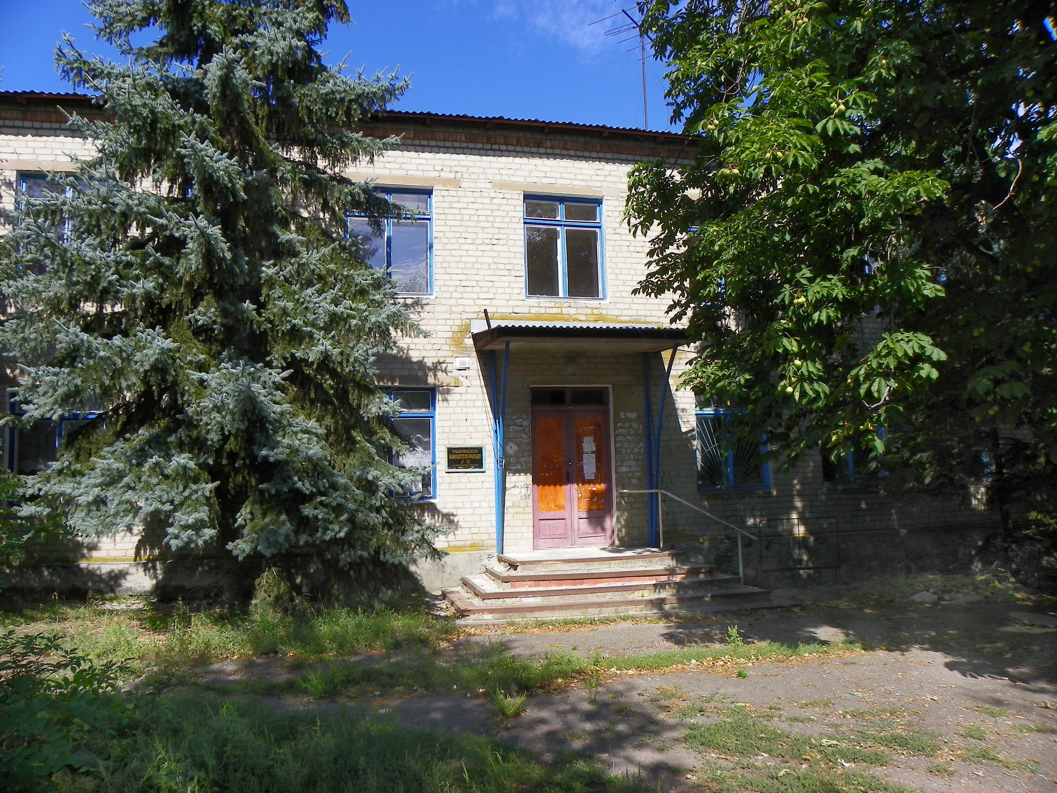 Library in Prydorozhne village, Donetsk region, Ukraine. In the past, a branch of the Sberbank of the USSR or Savings Bank of the USSR was also located in this building.